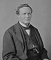 Lewis W. Ross, US Representative from Illinois